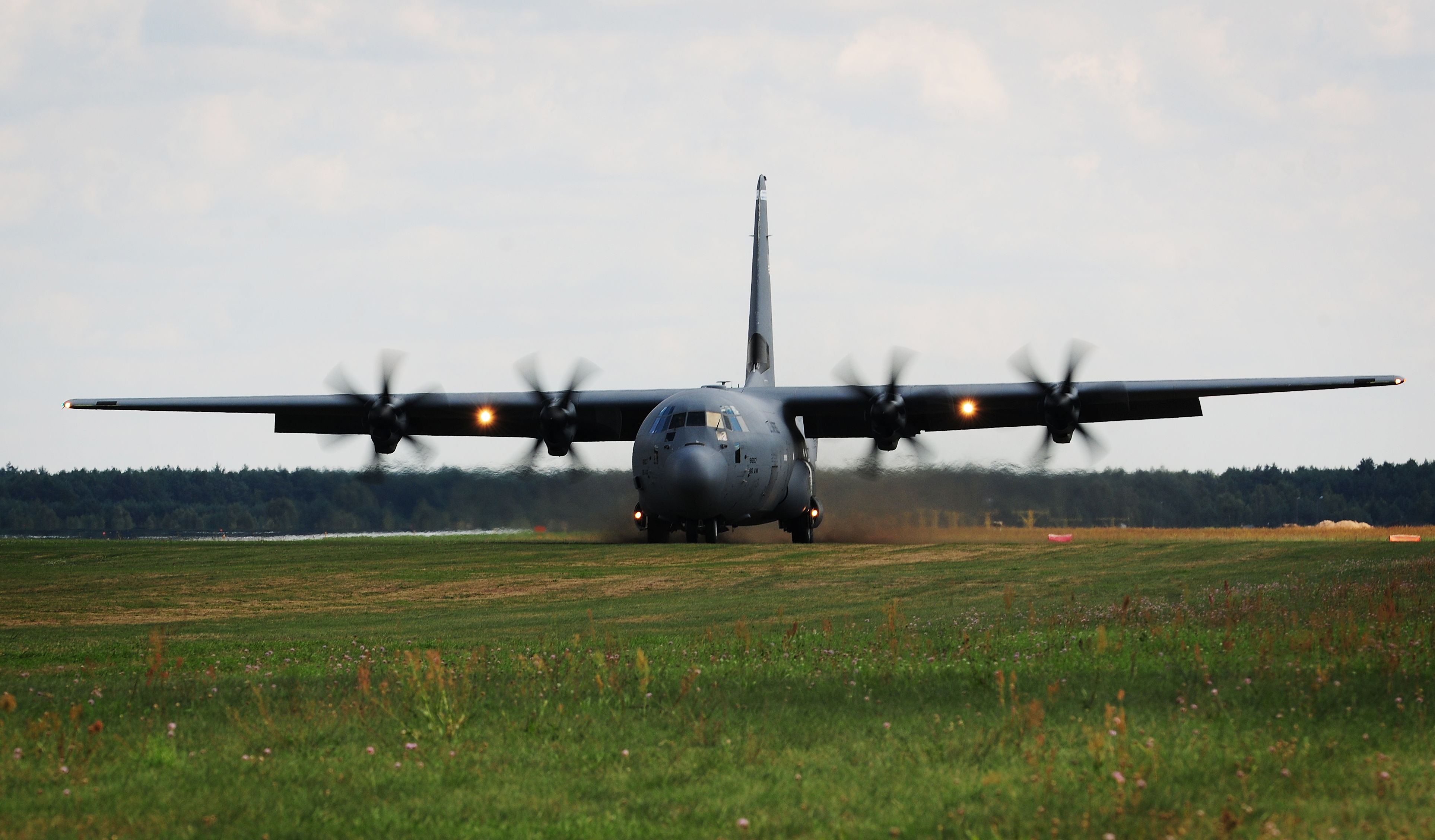 A U.S. Air Force C-130J Super Hercules aircraft lands on an unimproved runway at Powidz Air Base, Poland, Aug. 25, 2014, during a mission as part of the Poland Off-station Training Deployment, a 2-month Air Expeditionary Force rotation, in support of Atlantic Resolve. Europe-based U.S. Army units were deployed to Poland, Lithuania, Estonia and Latvia to conduct bilateral military exercises and reinforce NATO security commitments to the host nations.